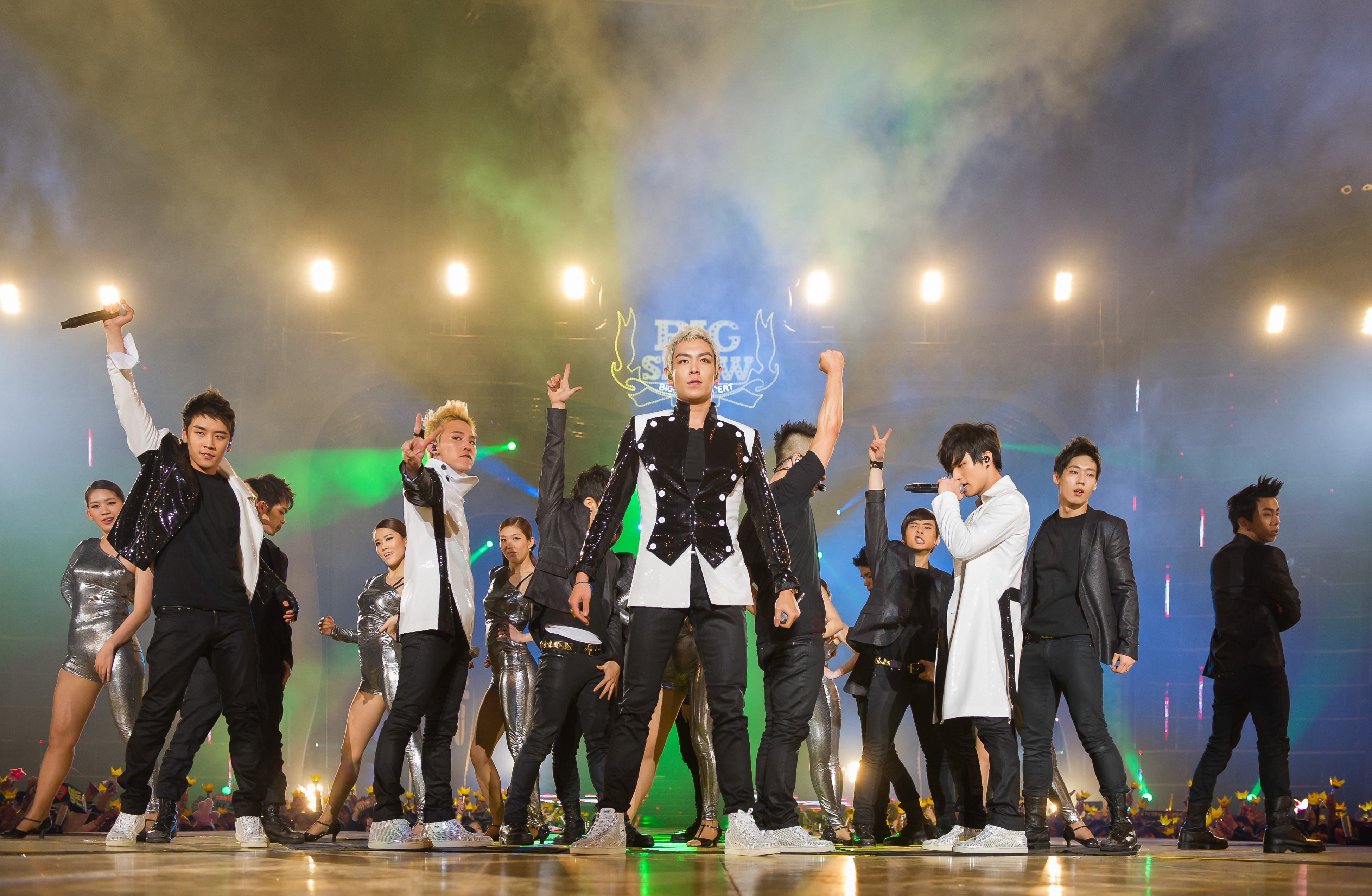 Hallyu, the Korean wave Hallyu refers to spread of Korean culture around the world. Big Bang, a Korean boy band who recently released another album has been promoting themselves not as Hallyu stars, but as artists.